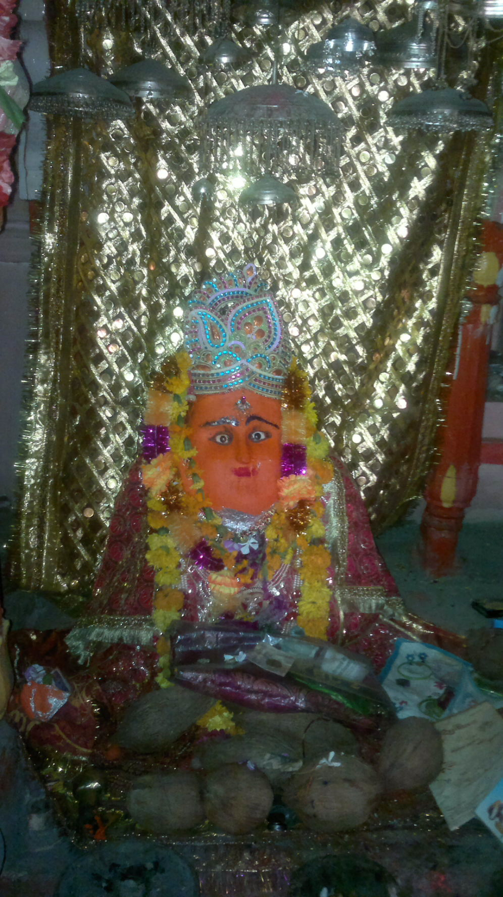 Godess Durga